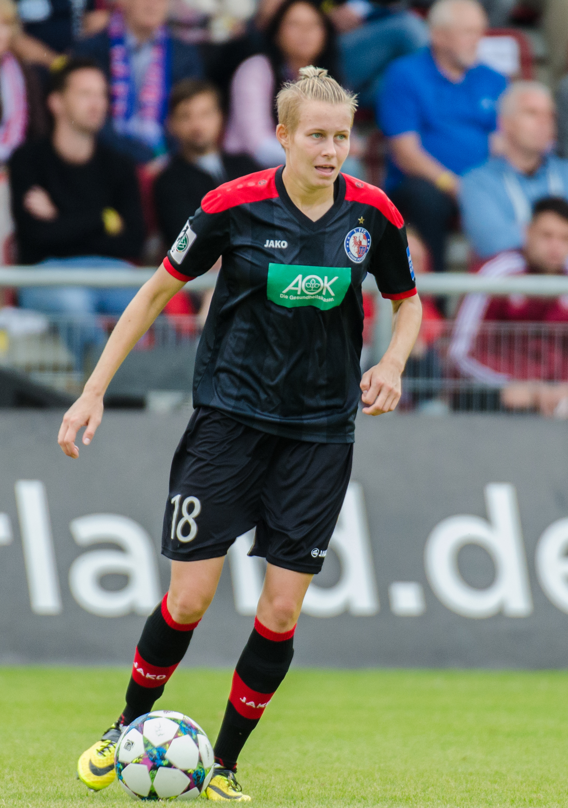 Match of the German Women's Football Bundesliga between 1.FFC Frankfurt and 1. FFC Turbine Potsdam, 2015-09-13